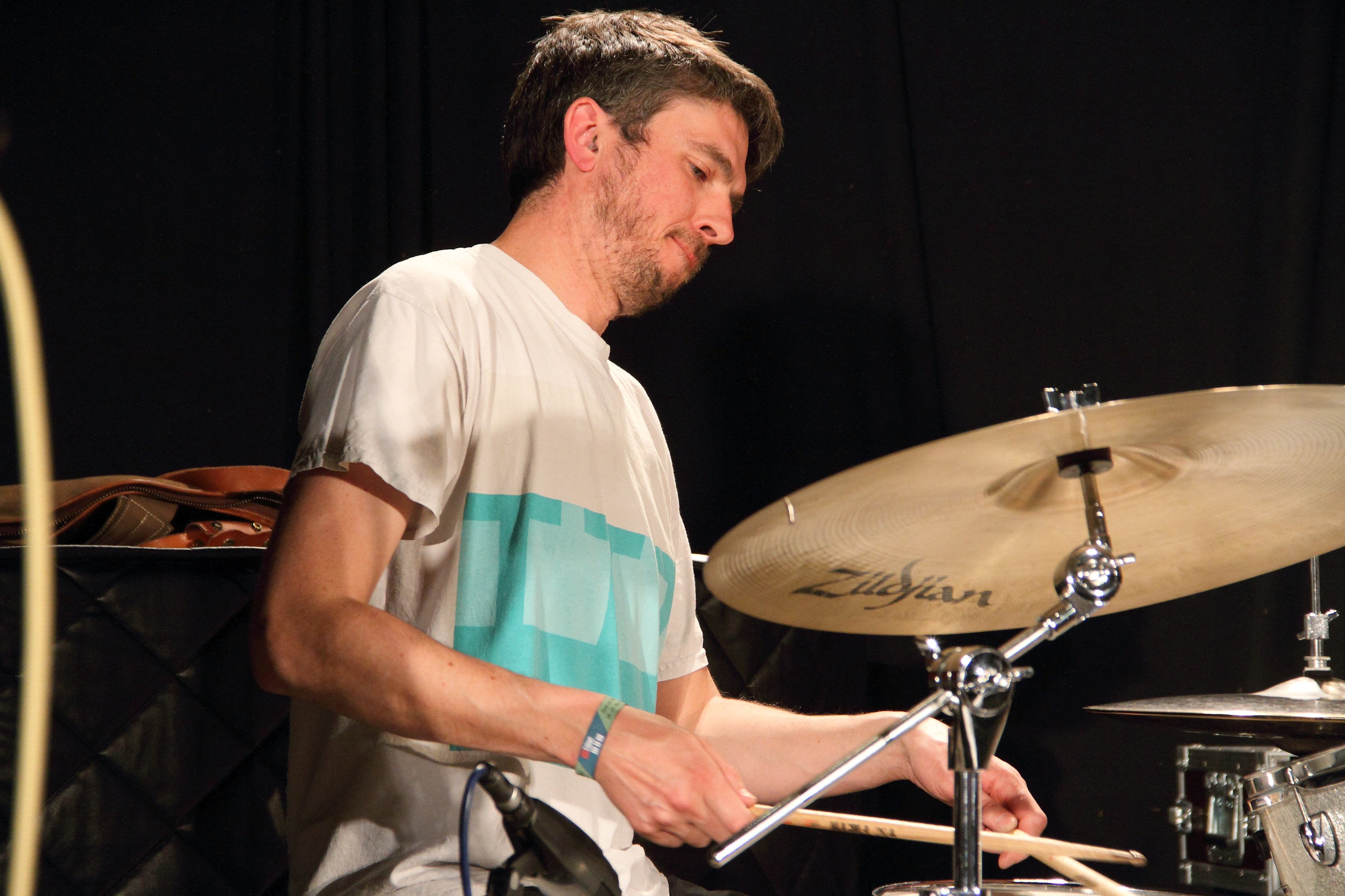 Shabaka Hutchings and Sons of Kemet at INNtöne Jazzfestival 2018.